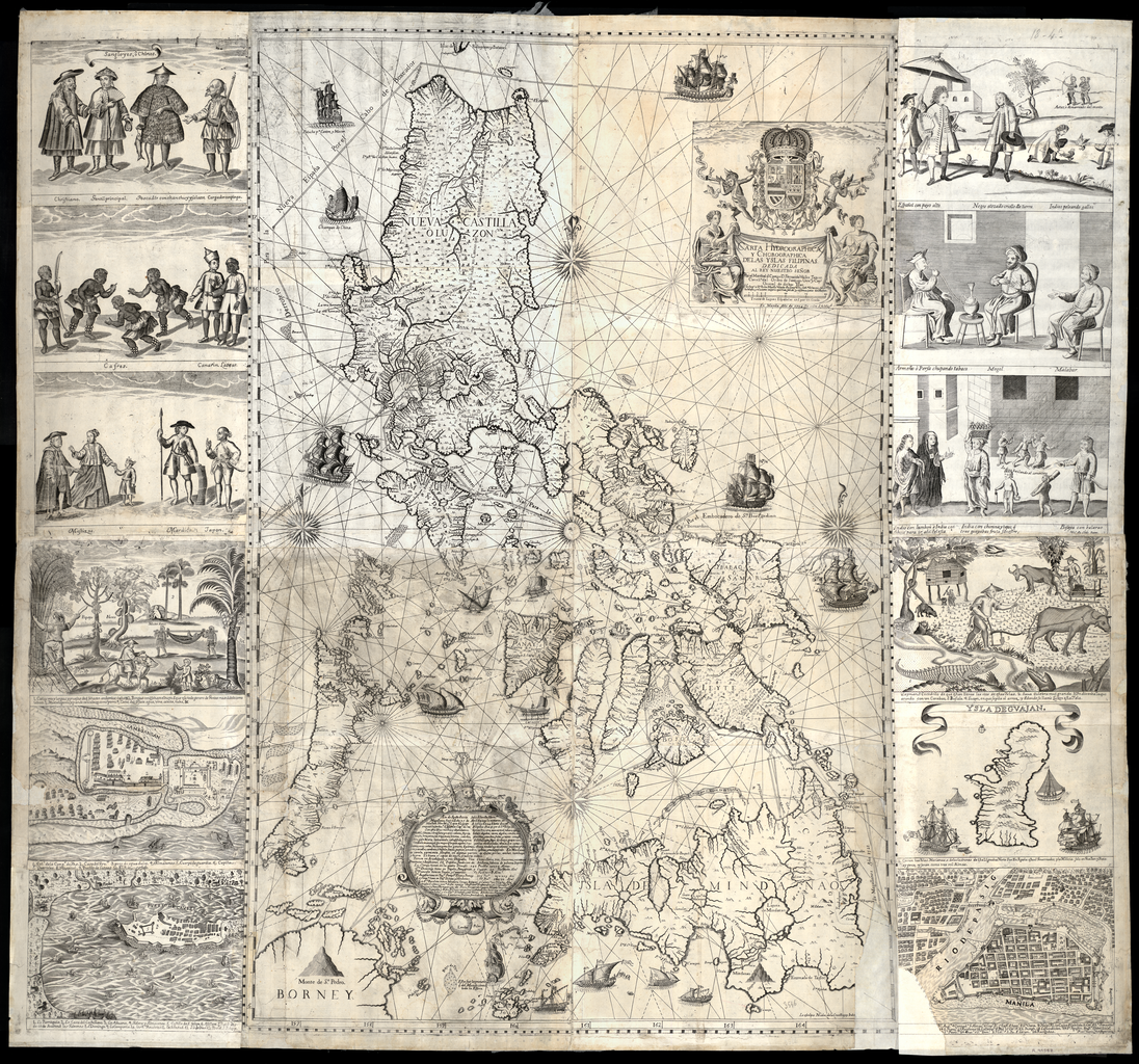 This magnificent map of the Philippine archipelago, drawn by the Jesuit Father Pedro Murillo Velarde (1696–1753) and published in Manila in 1734, is the first and most important scientific map of the Philippines. The Philippines were at that time a vital part of the Spanish Empire, and the map shows the maritime routes from Manila to Spain and to New Spain (Mexico and other Spanish territory in the New World), with captions. In the upper margin stands a great cartouche with the title of the map, crowned by the Spanish royal coat of arms flanked each side by an angel with a trumpet, from which an inscription unfurls. The map is not only of great interest from the geographic point of view, but also as an ethnographic document. It is flanked by twelve engravings, six on each side, eight of which depict different ethnic groups living in the archipelago and four of which are cartographic descriptions of particular cities or islands. According to the labels, the engravings on the left show: Sangleyes (Chinese Philippinos) or Chinese; Kaffirs (a derogatory term for non-Muslims), a Camarin (from the Manila area), and a Lascar (from the Indian subcontinent, a British Raj term); mestizos, a Mardica (of Portuguese extraction), and a Japanese; and two local maps—one of Samboagan (a city on Mindanao), and the other of the port of Cavite. On the right side are: various people in typical dress; three men seated, an Armenian, a Mughal, and a Malabar (from an Indian textile city); an urban scene with various peoples; a rural scene with representations of domestic and wild animals; a map of the island of Guajan (meaning Guam); and a map of Manila. Ethnic groups; Nautical charts